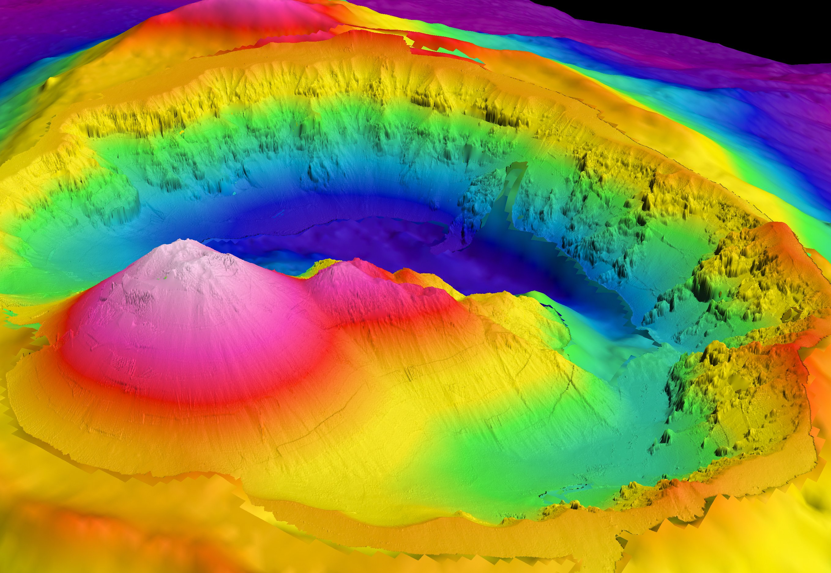 Brothers Volcano as looking into the caldera from the south, the site of recent volcanic eruptions and ongoing hydrothermal venting from the summit crater.